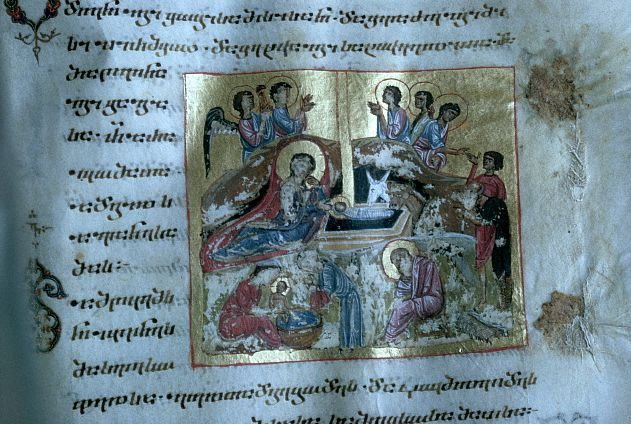 A page from a rare 12th century Gelati Gospel depicting the Nativity.